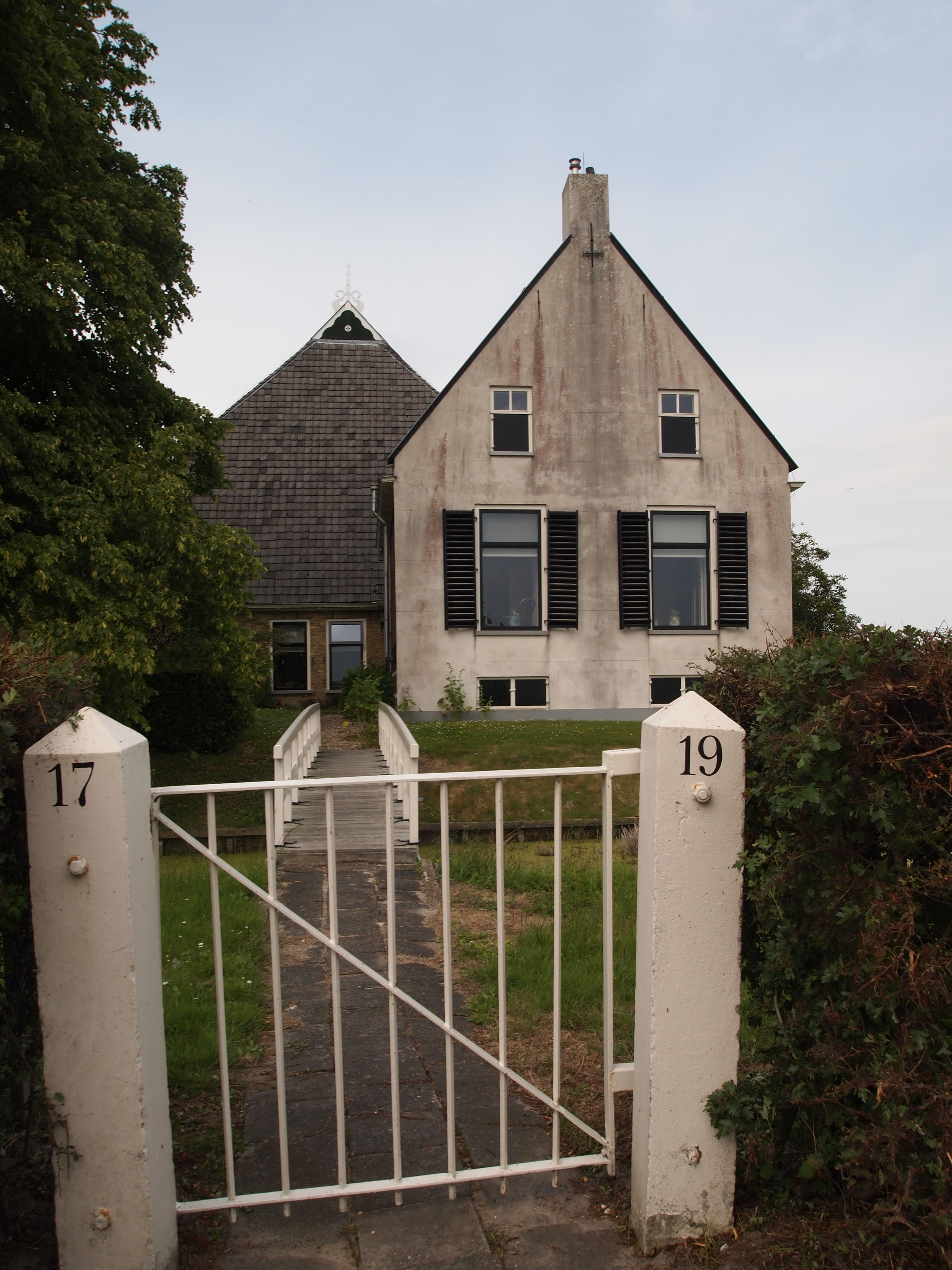 Hekje Heemstra State Kimswerd